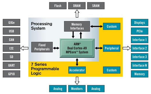 The Zynq-7000 AP SoC product line provides scalable performance and configuration serving a wide range of today’s as well as tomorrow’s applications needs. The combination of the ARM® dual-core Cortex™-A9 MPCore™ processing system and 7 series programmable logic provides a computing platform like no other. Zynq-7000 AP SoC is ideal for solutions requiring advanced system control combined with sophisticated signal processing.